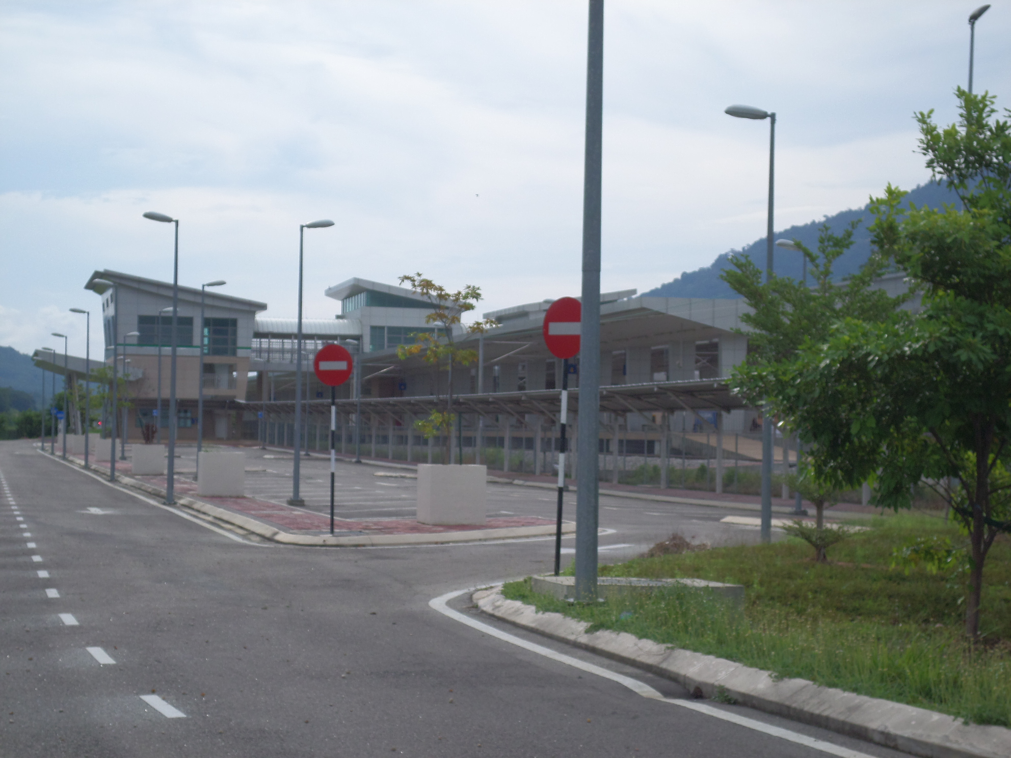 Pulau Sebang/Tampin Railway Station, Pulau Sebang, Alor Gajah, Melaka, MalaysiaBahasa Melayu: Stesen Keretapi Pulau Sebang/Tampin, Pulau Sebang, Alor Gajah, Melaka, Malaysia